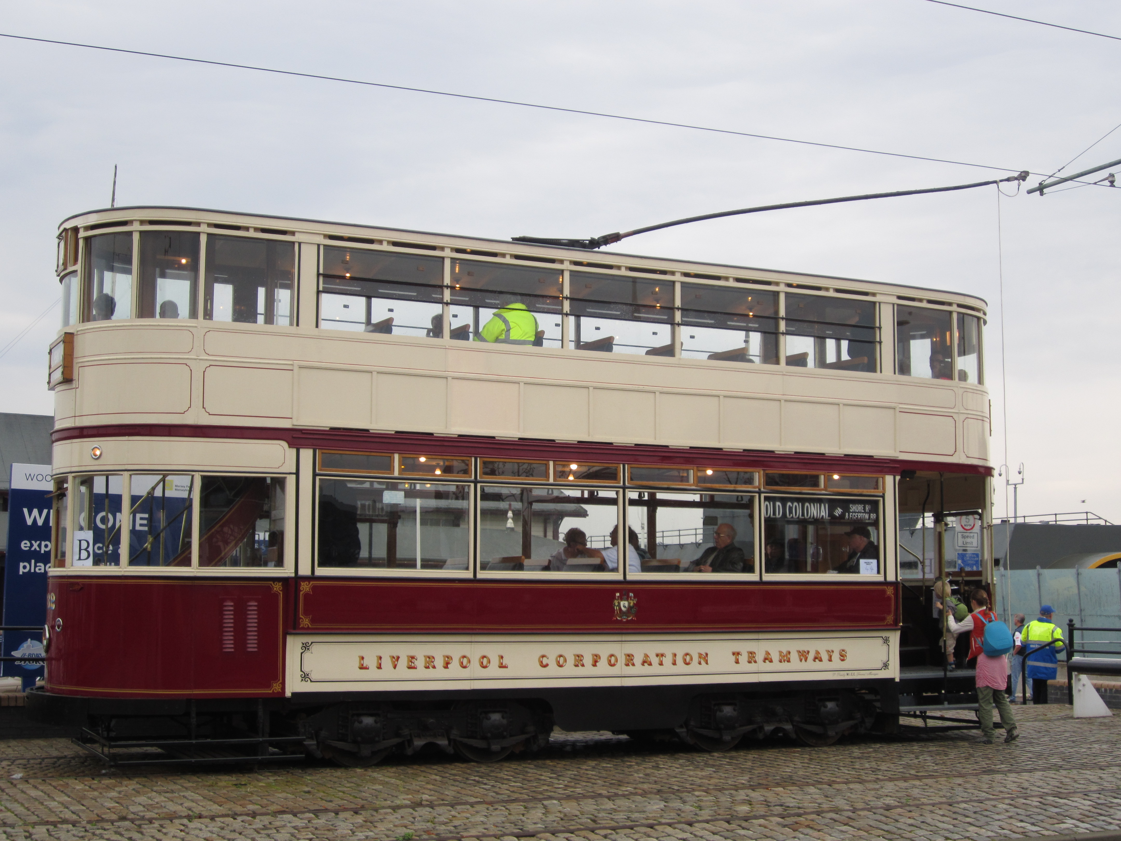 Liverpool Corporation Tram at the 2011 Wirral Bus and Tram Show, Woodside, Birkenhead, Merseyside, England.